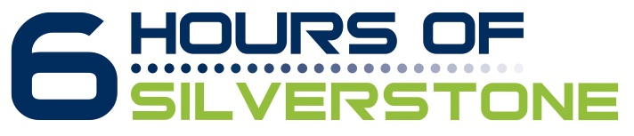 The logo for the 6 Hours of Silverstone, a race held as a part of the FIA World Endurance Championship.